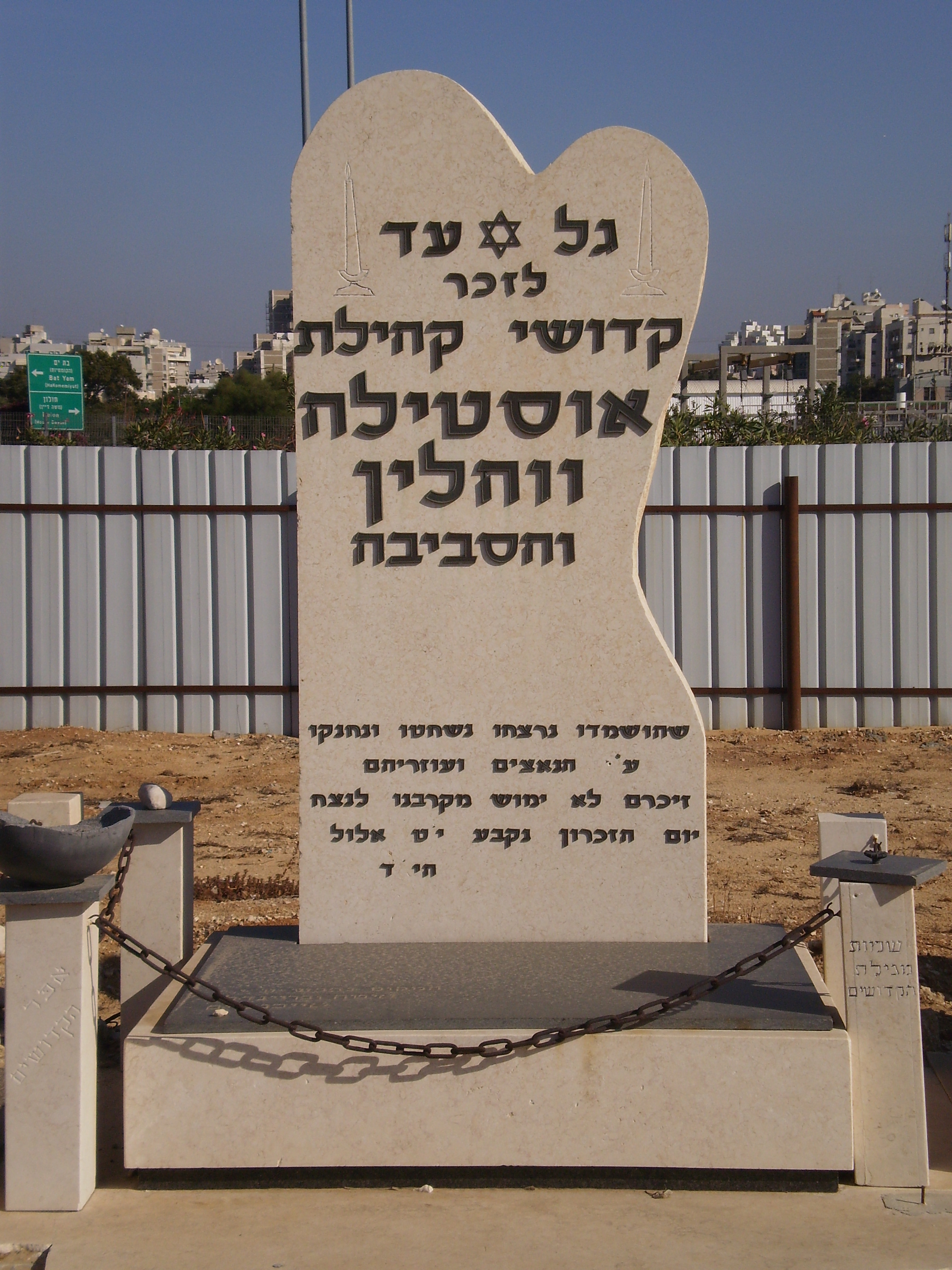 Ustyluh Jewery Holocaust memorial at Holon Cemetery